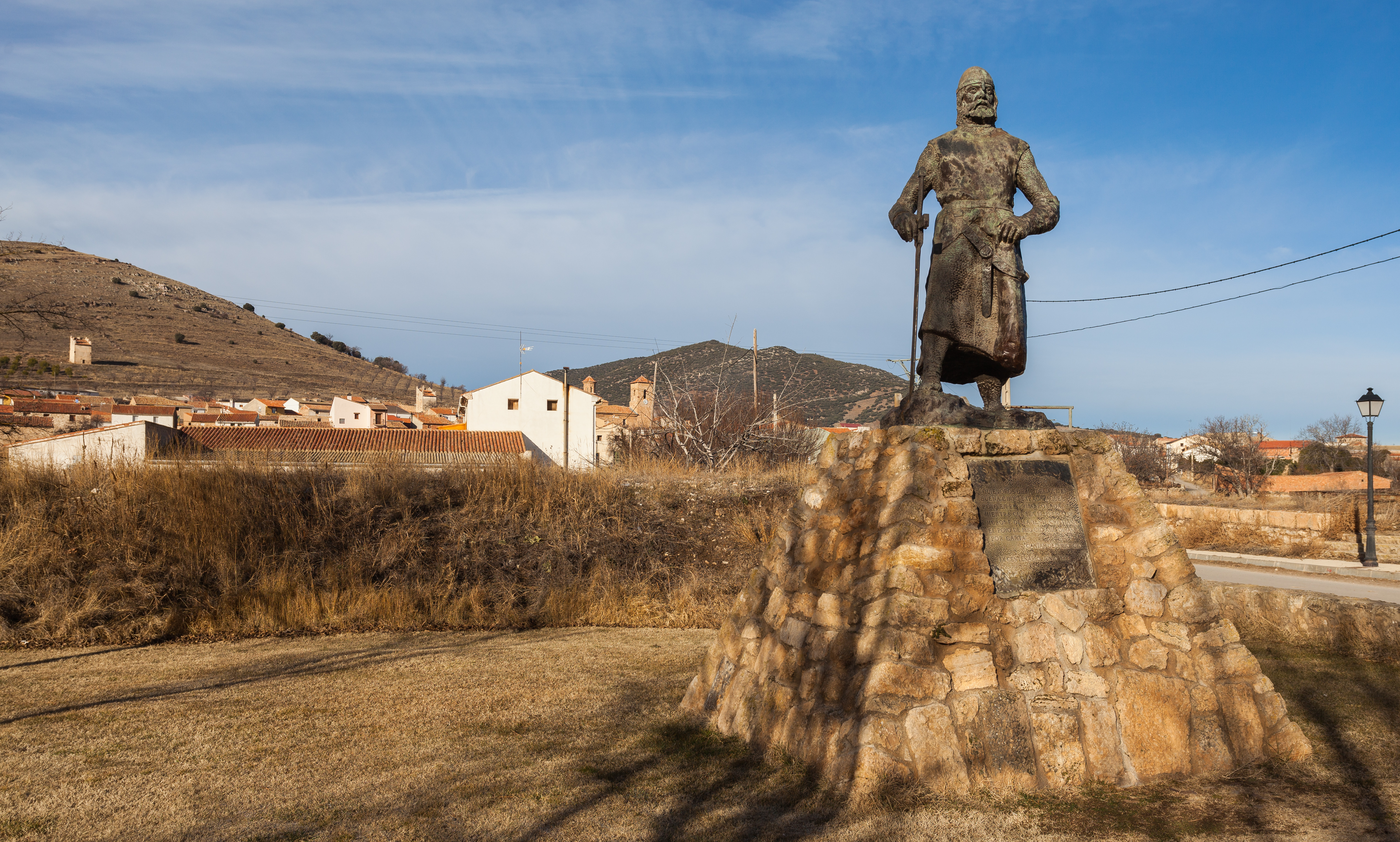 Statue of El Cid, El Poyo del Cid, Teruel, Spain